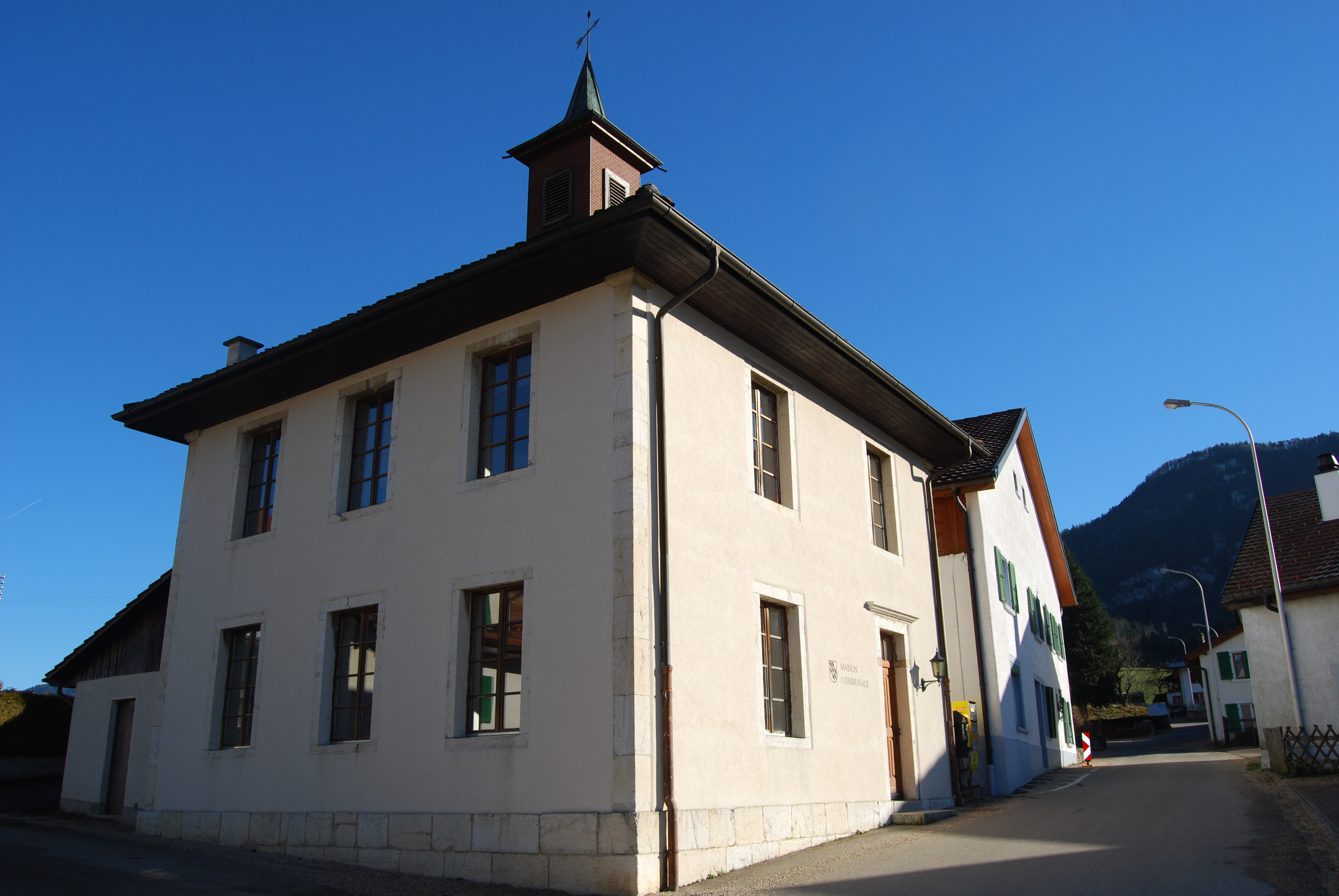 Municipal administration Eschert, canton of Bern, Switzerland